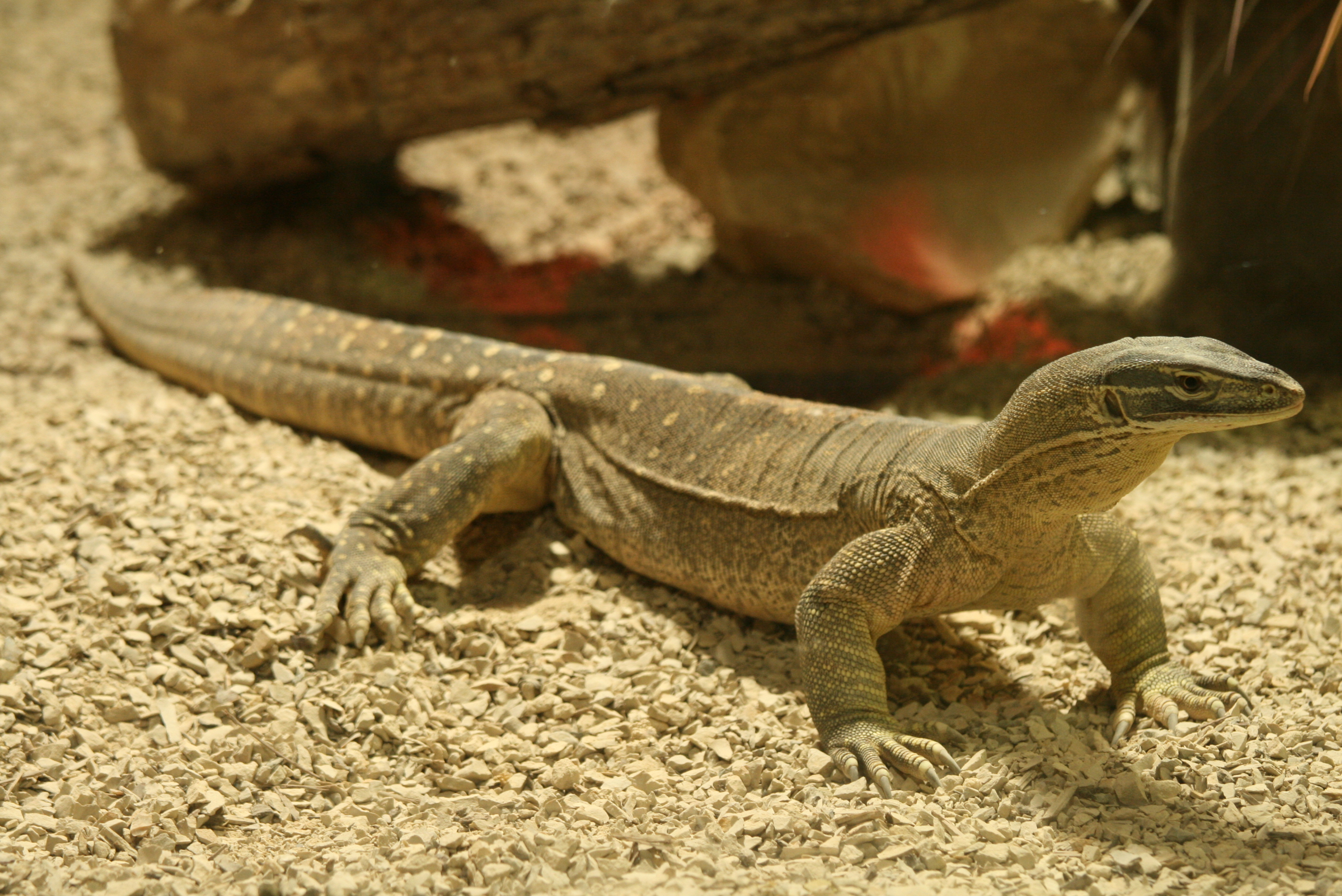 Sand goanna (Varanus gouldii), Parc Paradisio, Hainaut, Belgium.